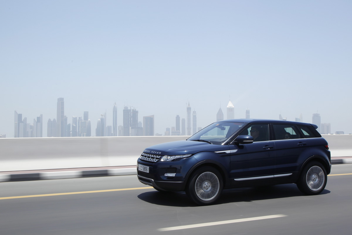 Range Rover Evoque 5 doors in Dubai